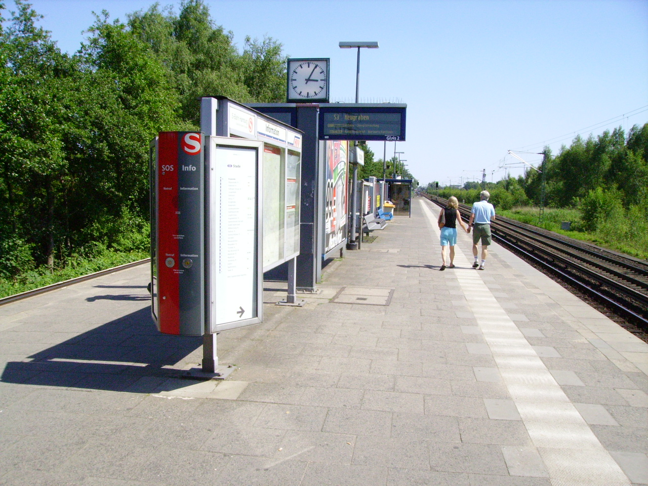 Krupunder railway station, platform, (Hamburg S-Bahn), Halstenbeck, Schleswig-Holstein, Germany